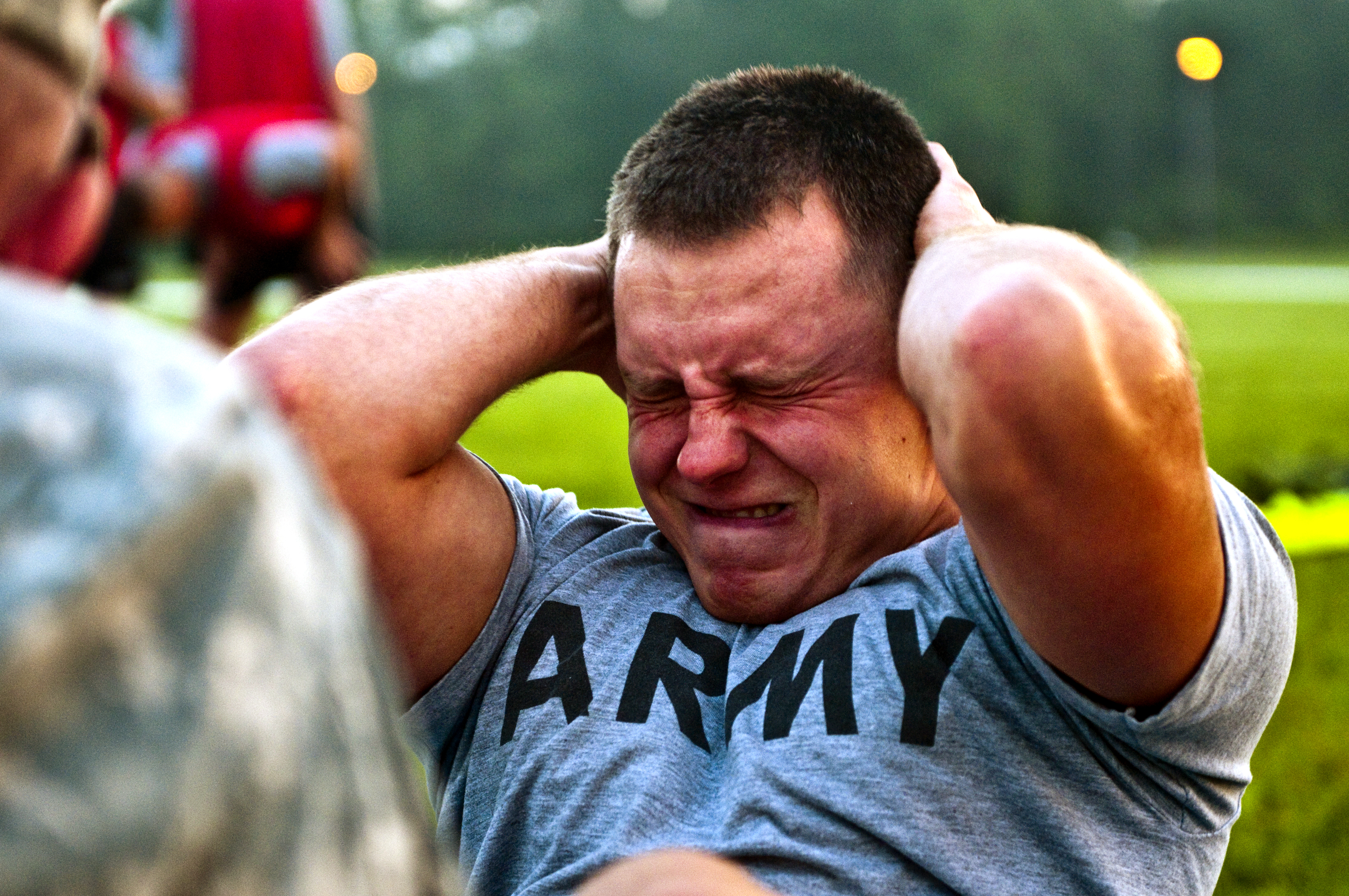 Sgt. David W. Rider, a 2010 Army Reserve Best Warrior competitor and practical nurse from Strongsville, Ohio, assigned to Bravo Company, 256th Combat Support Hospital, grimaces during the push-up event while taking the Army Physical Fitness Test at Fort McCoy, Wis., July 26, 2010. U.S. Army Reserve Command Photo by Staff Sgt. Mark Burrell Date: 07.26.2010 Location: Fort McCoy, US Related Photos